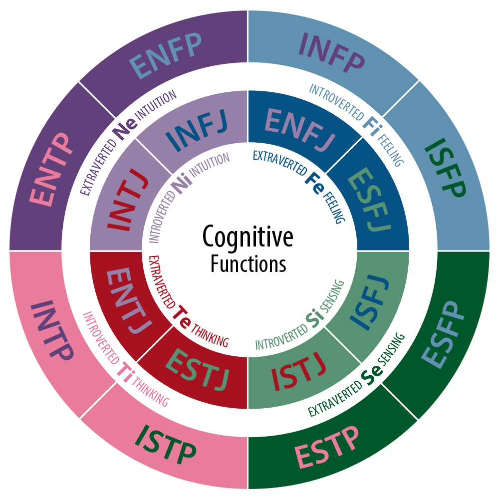 A diagram depicting the cognitive functions of each Myers-Briggs personality type. A type's background color represents its dominant function, and its text color represents its auxiliary function.